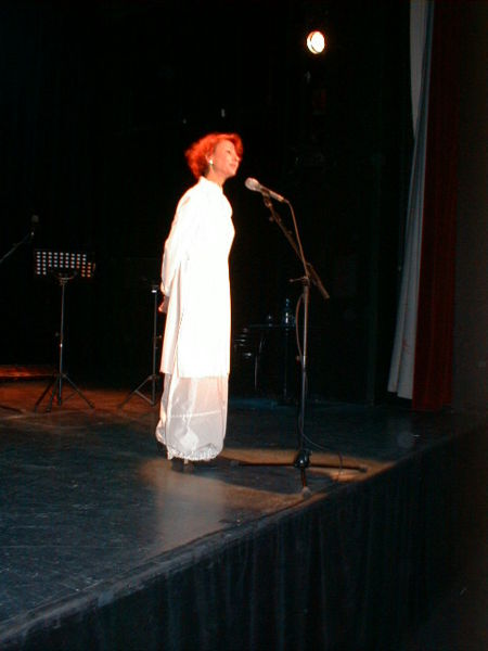 Esther Ofarim on stage in Hamburg during concert